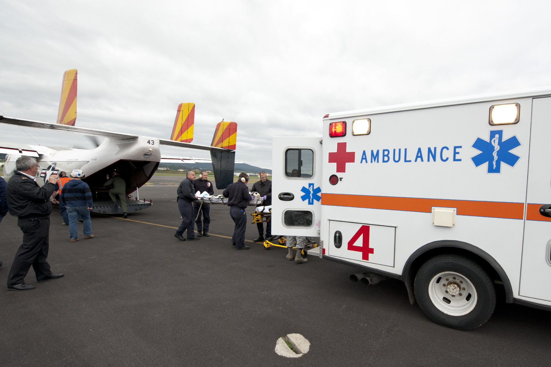 First responders from the 65th Medical Group and a U.S. Navy flight crew place a patient into an ambulance during a medical evacuation mission here, April 11, 2014, Lajes Field, Azores. A U.S. Navy Sailor required medical evacuation to Lajes Field due to acute abdominal pain. First responders with the 65th Medical Group provided emergent care to the sailor before the patient was transferred to a local hospital for care.